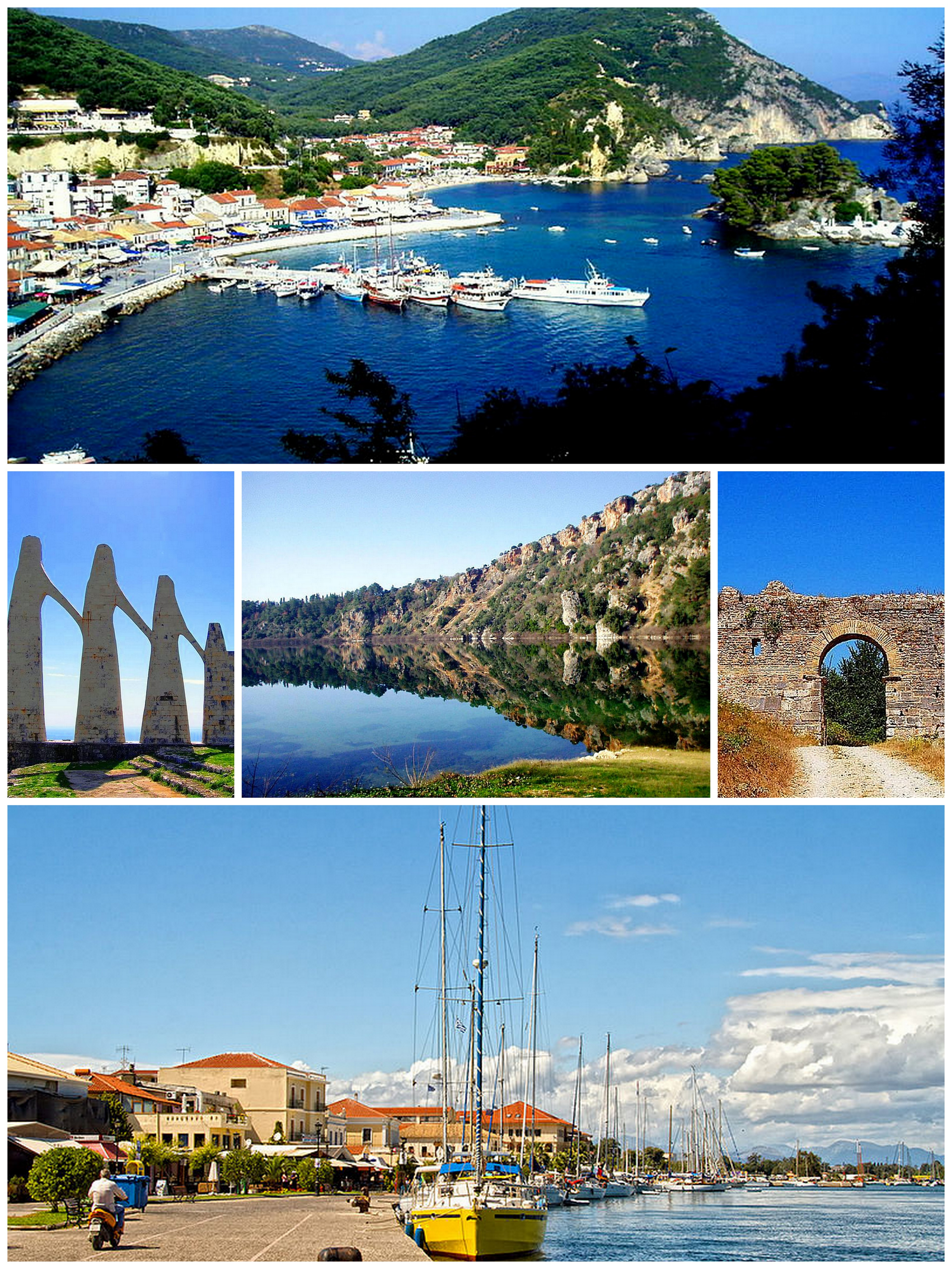 Images from Preveza Prefecture: 1.Parga, 2.Zalongo Monument, 3.Zirou Lake, 4.Ancient Nikopolis, 5.Port of Preveza